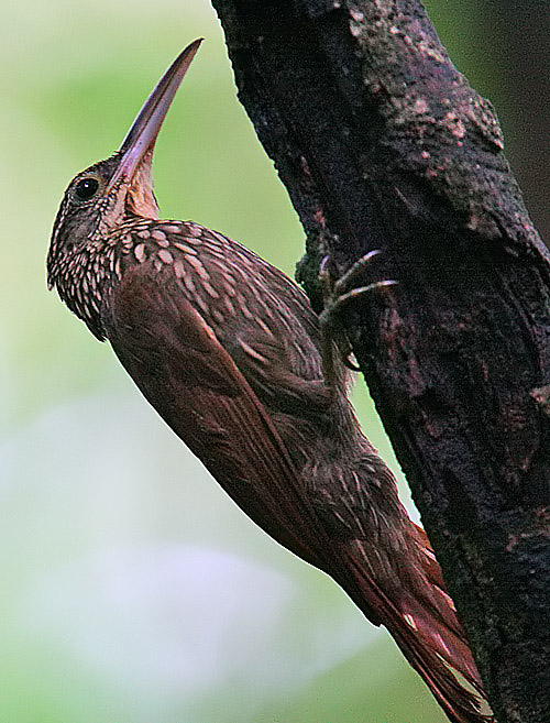 Image taken at Heliconias near Bijagua, Costa Rica.